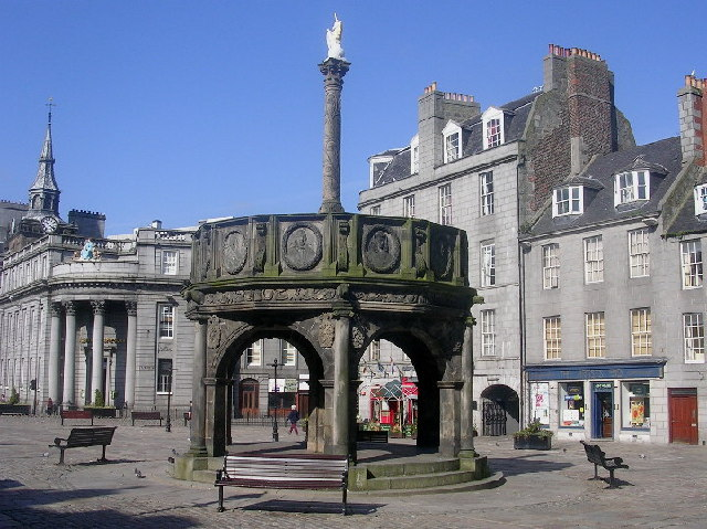 Aberdeen Mercat Cross